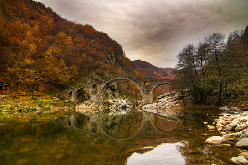 Dyavolski Most bridge in the Rhodope mountains